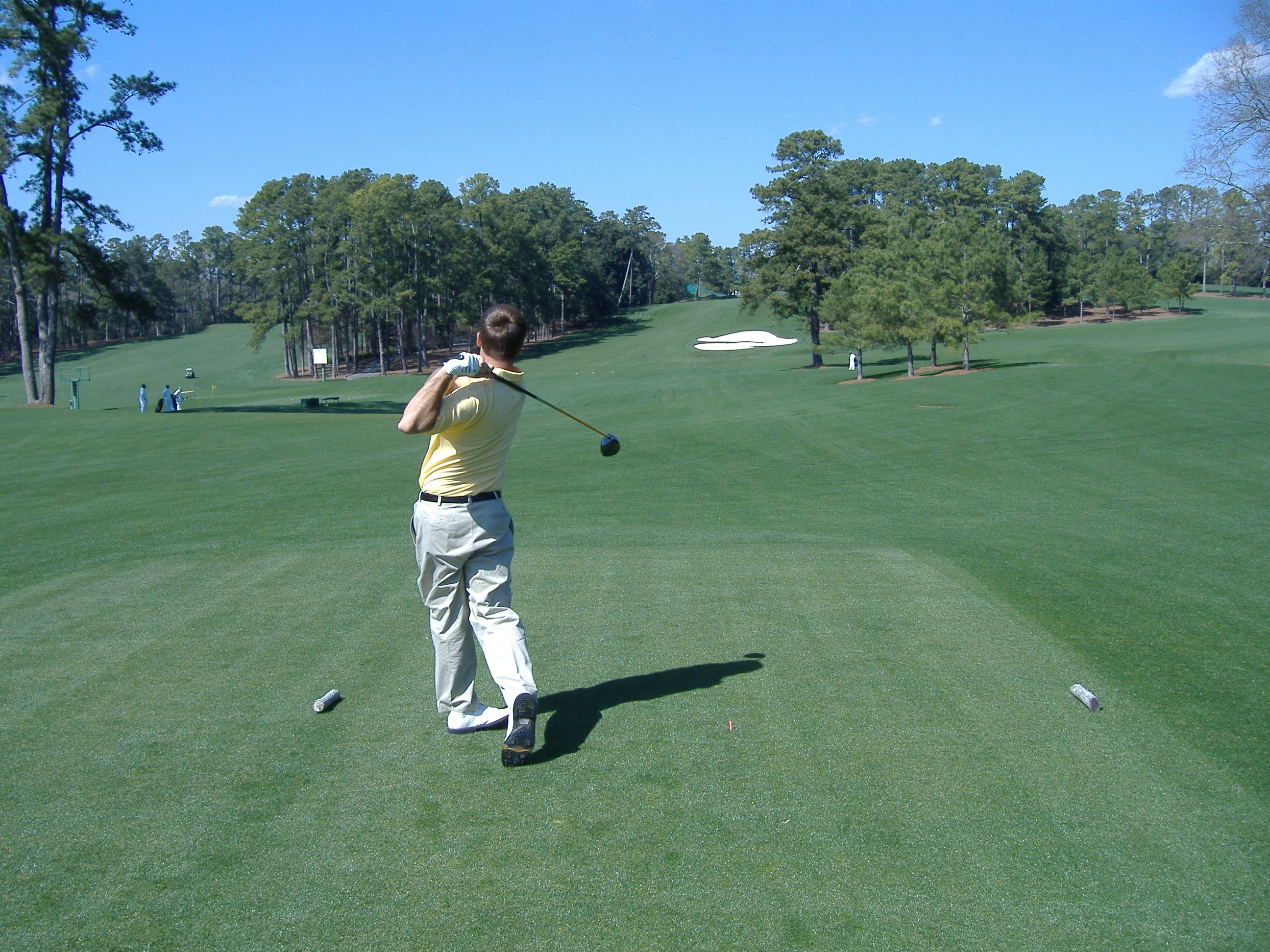 Florian Fritsch teeing off on #8, Augusta National Golf Club, en route to a one-putt Birdie. To the left another flight can be seen on the 2nd green.